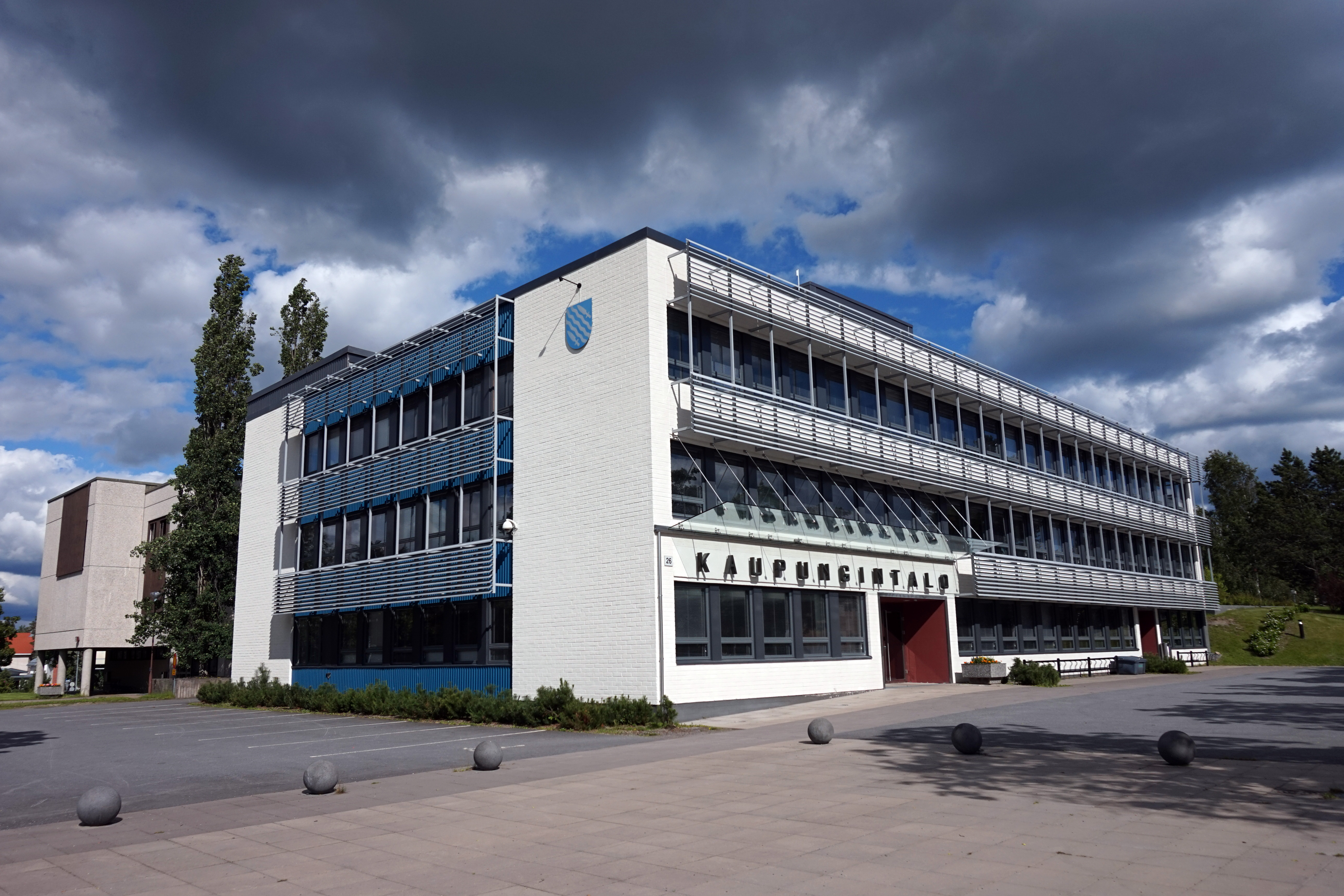 Town hall of Virrat.This photograph was taken with a Sony ILCE-5000